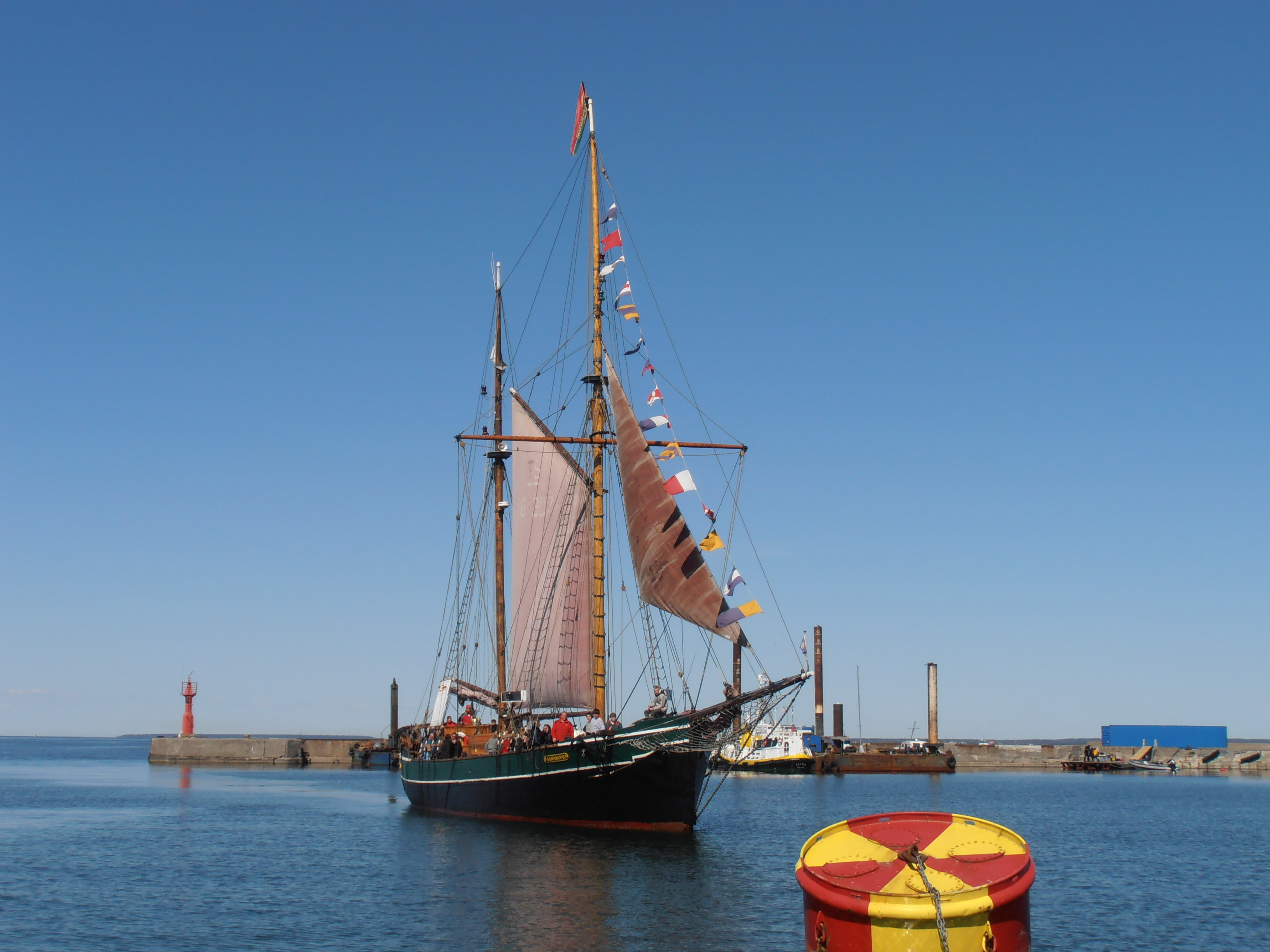 Sailing vessel Kajsamoor 1939 Tallinn 13 May 2012